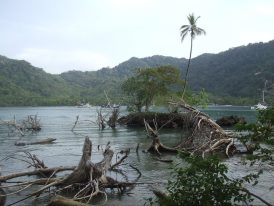 Sapzurro Beach driftwood (Colombia)